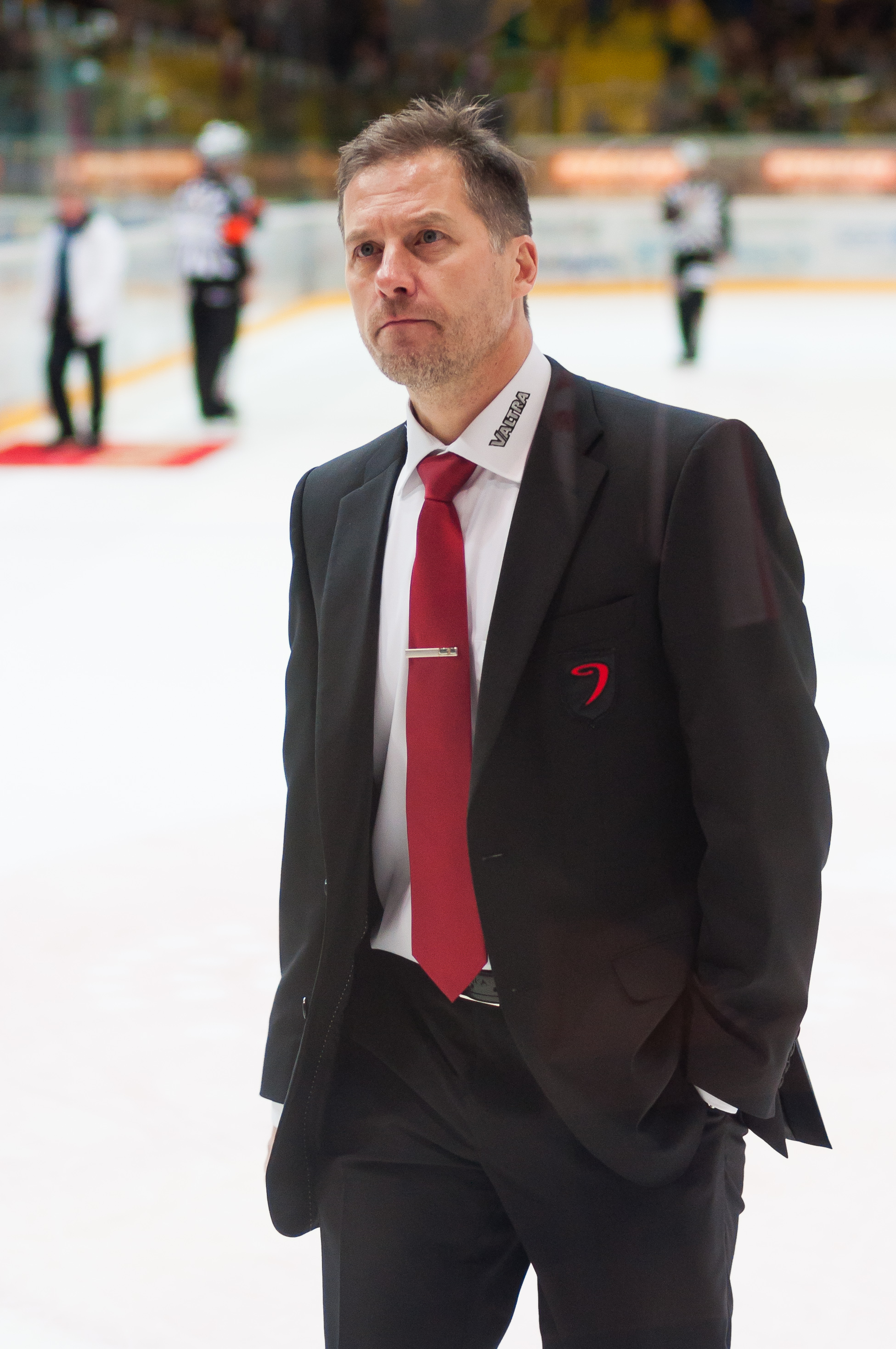 Finnish ice hockey coach and former goaltender Ari-Pekka Siekkinen, the goalteding coach and team manager of Jyväskylä's JYP, after a game against SaiPa in Lappeenranta, Finland.